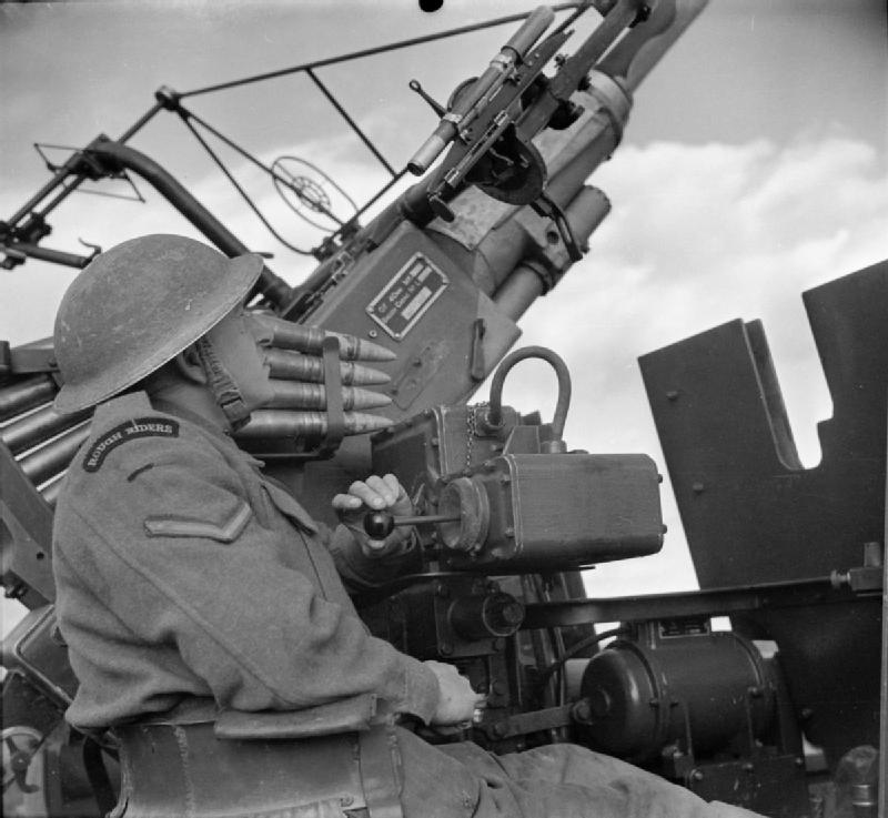 The British Army in Italy 1944 Lance Bombardier Ian Hopkins, one of the crew of a lorry-mounted 40mm Bofors anti-aircraft gun of the 11th (City of London Yeomanry) Light Anti-Aircraft Regiment, 16 January 1944.